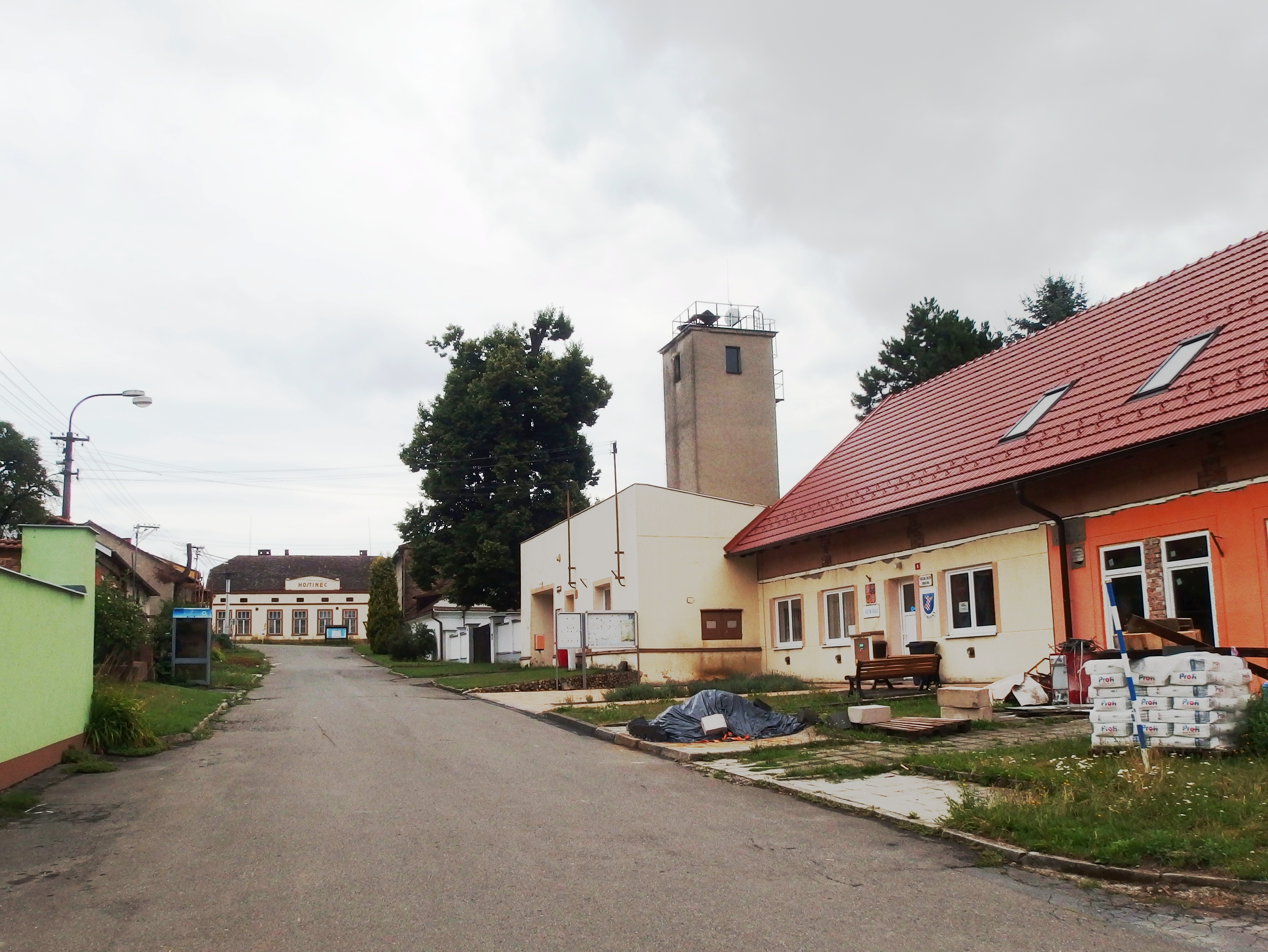 Sobíšky, Přerov District, Czech Republic.